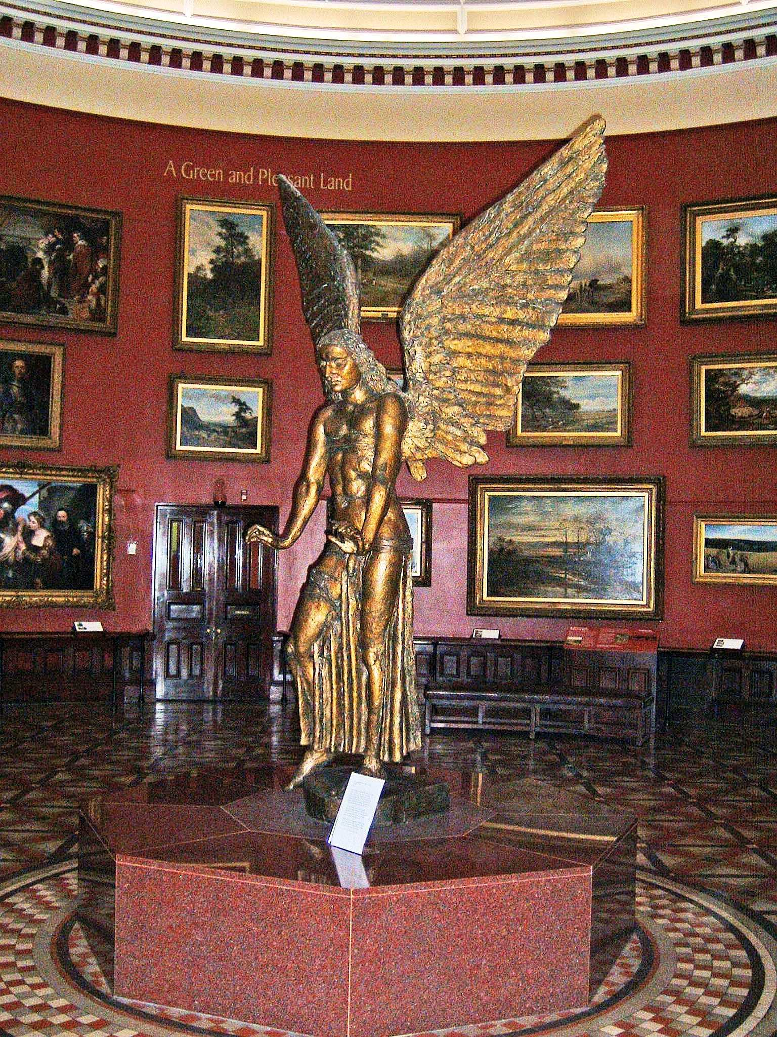 The Archangel Lucifer (1944-5) in the round gallery of Birmingham Museum & Art Gallery